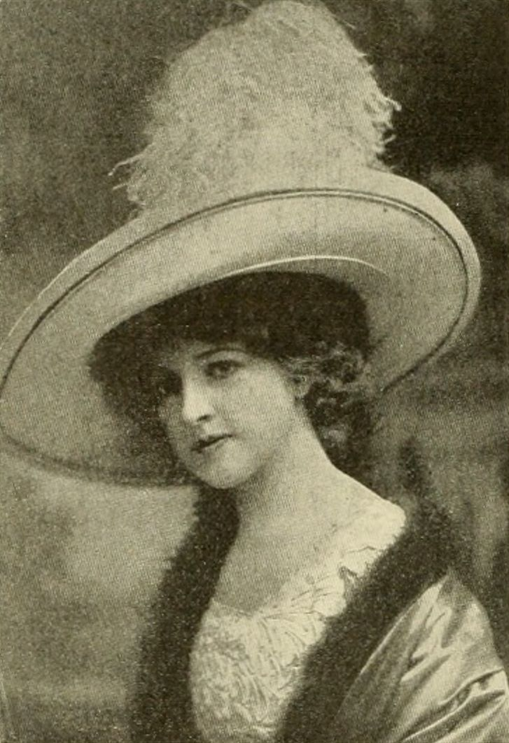 Marion Leonard, 1911